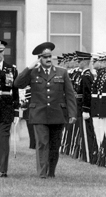 Army Col. David H. Huntoon (center), commander, 3rd U.S. Infantry Old Guard, escorts Defense Secretary William Perry (left) and Minister of Defense Lieutenant General Leonid Maltsev (right) of the Republic of Belarus, as they review the troops at the Pentagon in July 1996. Helene C. Stikkel